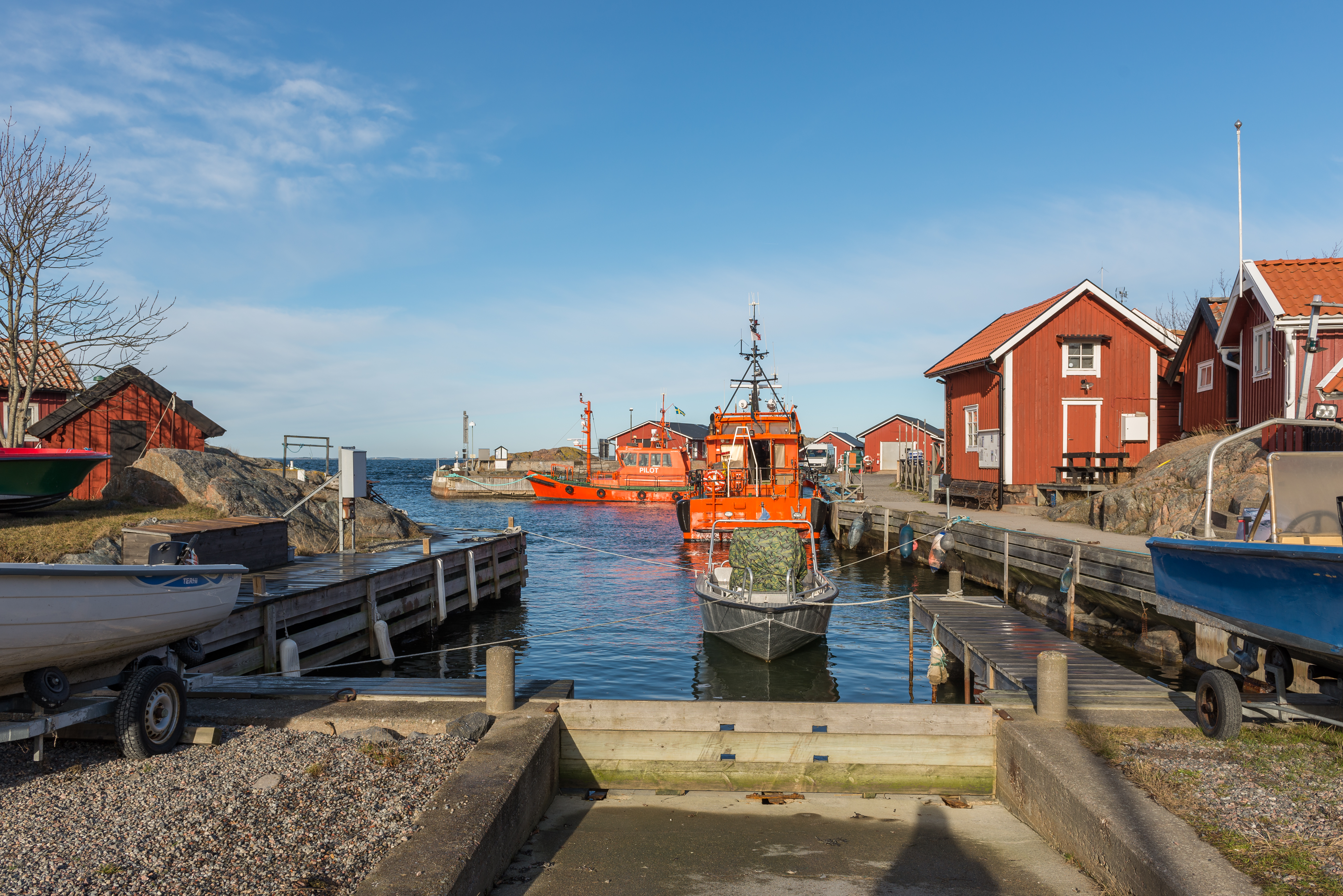 The main harbour at Öja Island, Stockholm Archipelago.